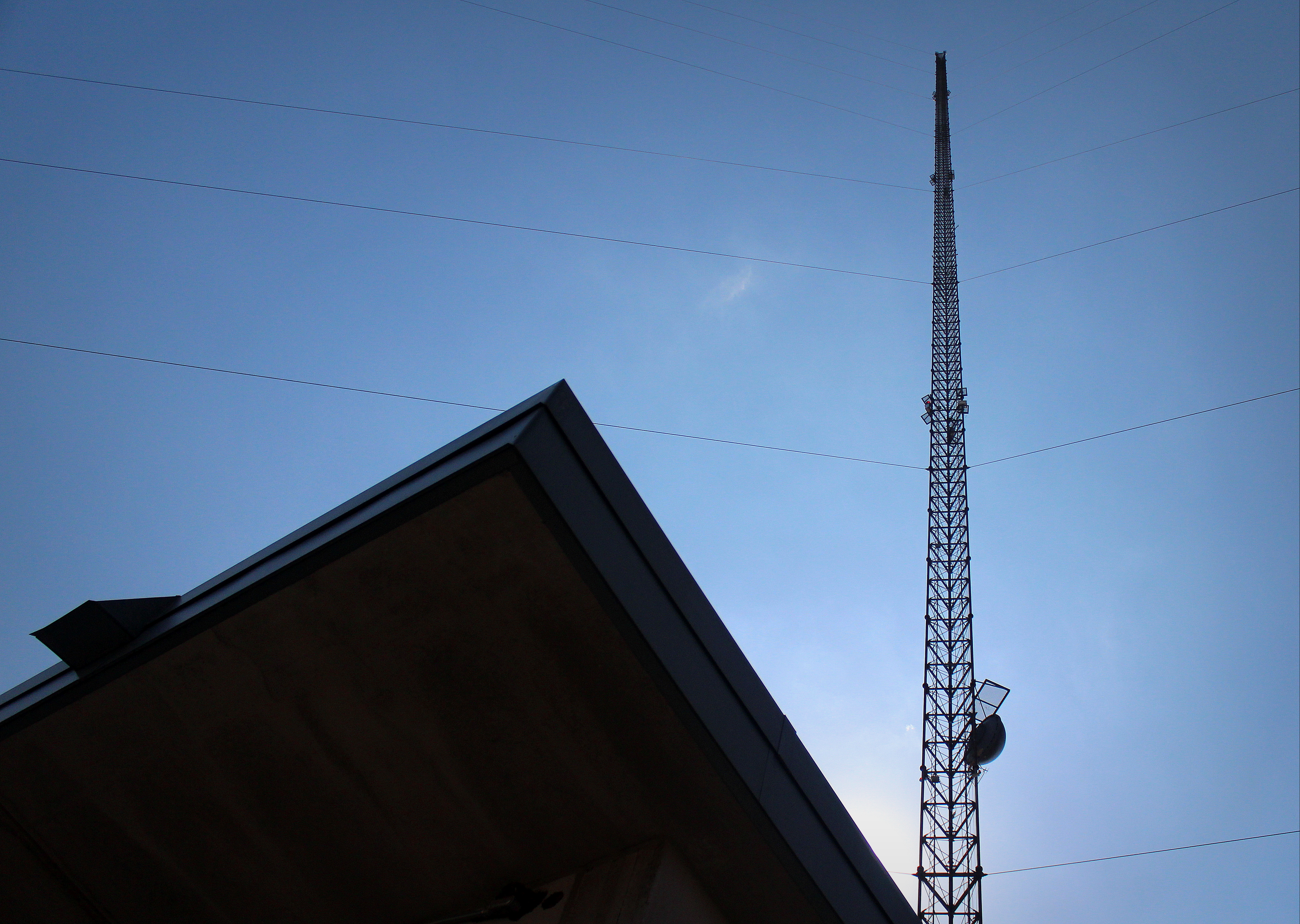 KVRR tower in Tansem Township, Clay County, Minnesota.